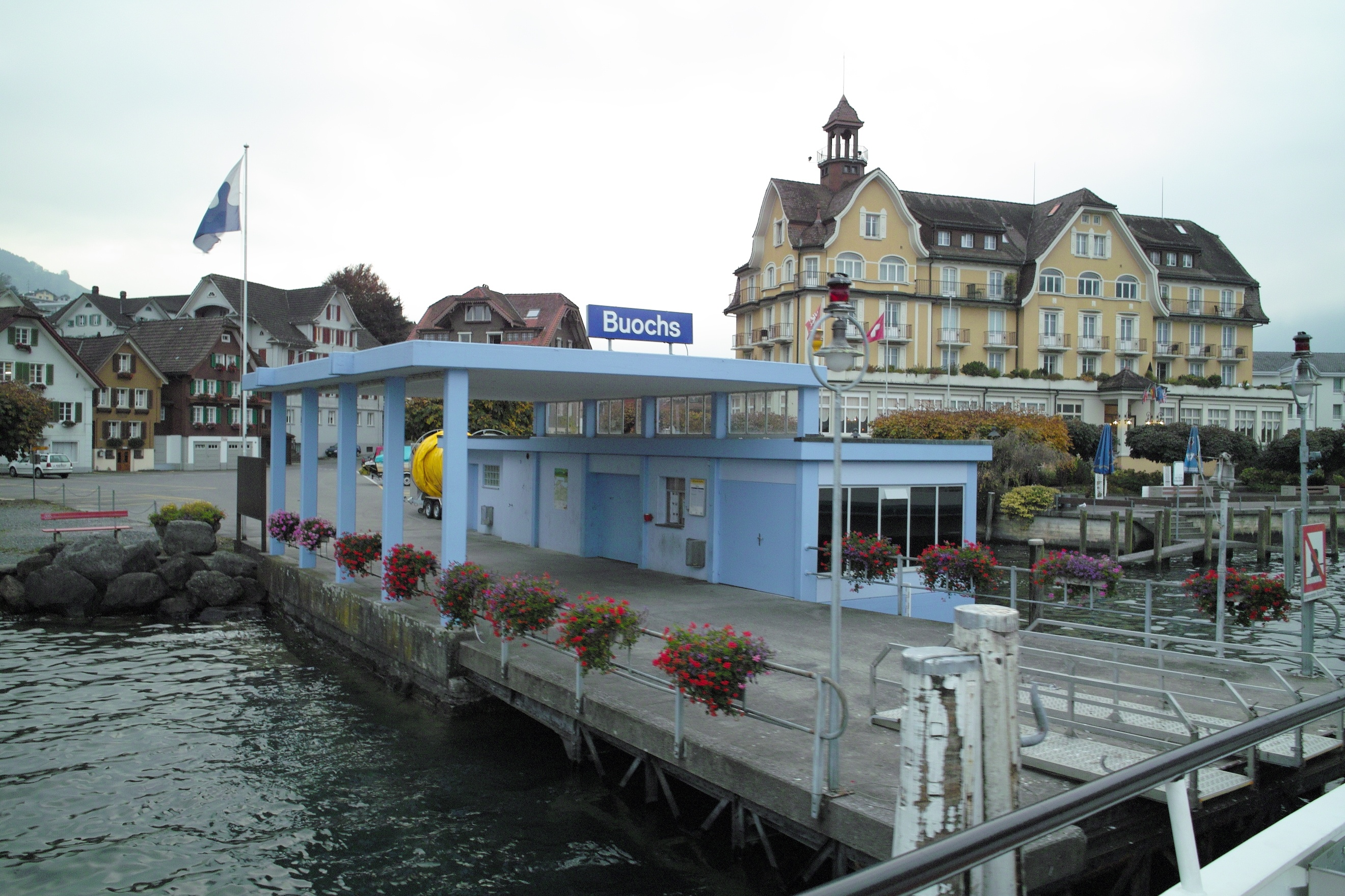 Pier of Buochs, Vierwaldstättersee (Lake Lucerne)